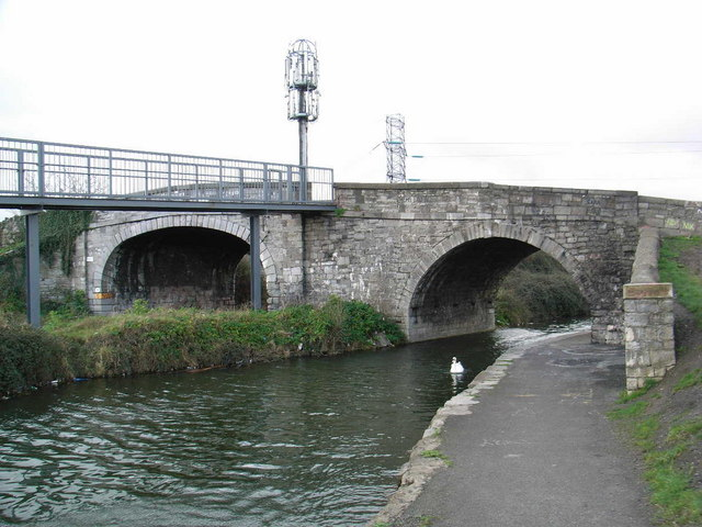 Broome Bridge on the Royal Canal. Renowned as the location where, in 1843, the Irish mathematician, physicist and astronomer William Rowan Hamilton came up with an important mathematical equation. He was on his way to nearby Dunsink observatory and reputedly scratched it on the stone work, lest he forget it.